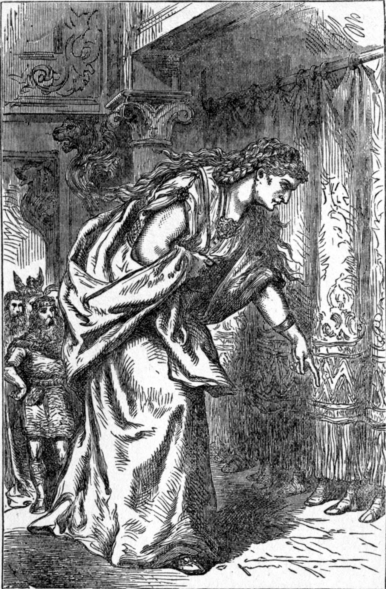 Skadi choosing her husband (the title given to this illustration in the book)